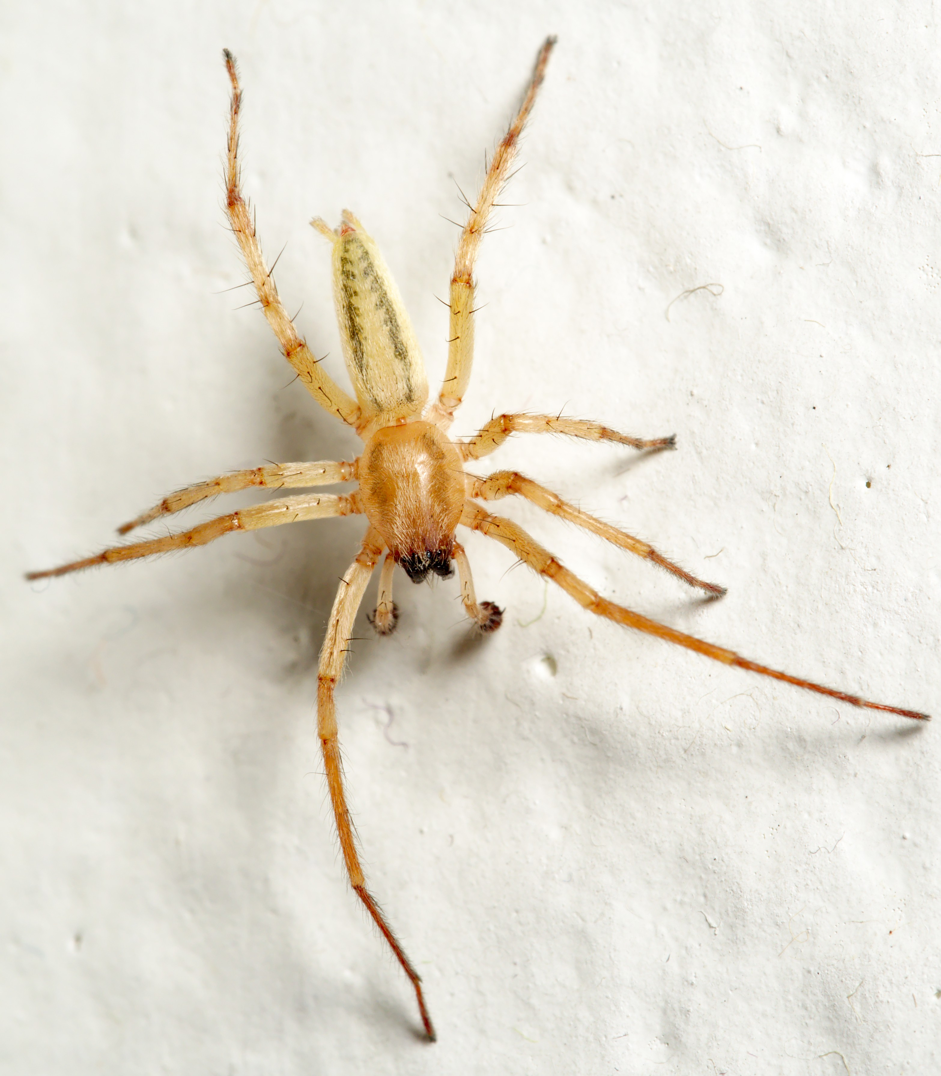 A "ghost spider" Hibana incursa, after appearing in a bathtub in Los Angeles.